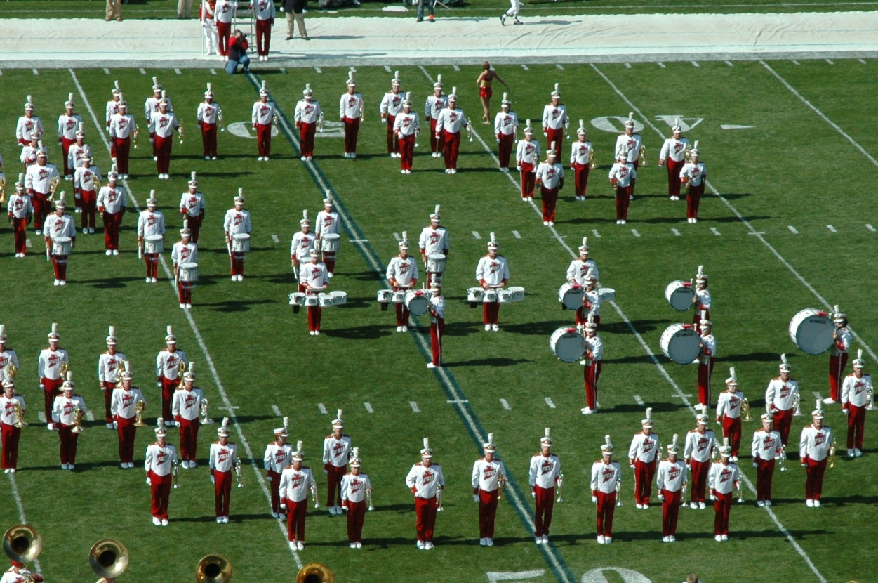 A picture of the ISU drum line on-field for a pregame.